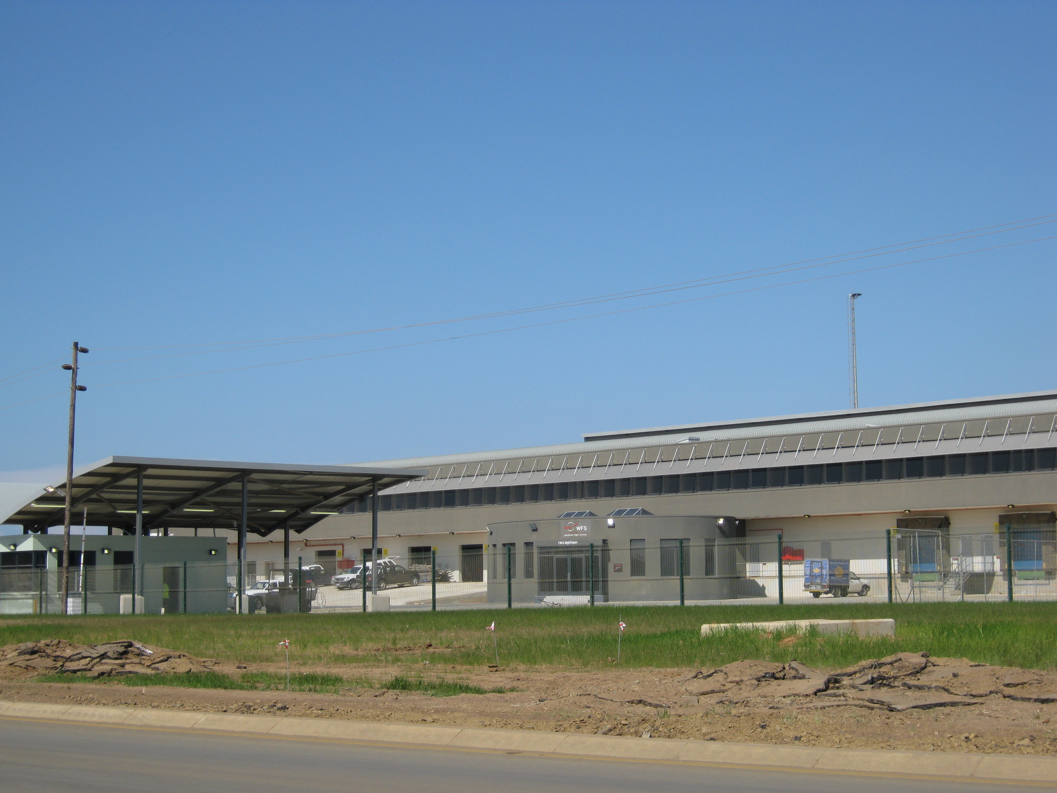 The cargo terminal at King Shaka International Airport